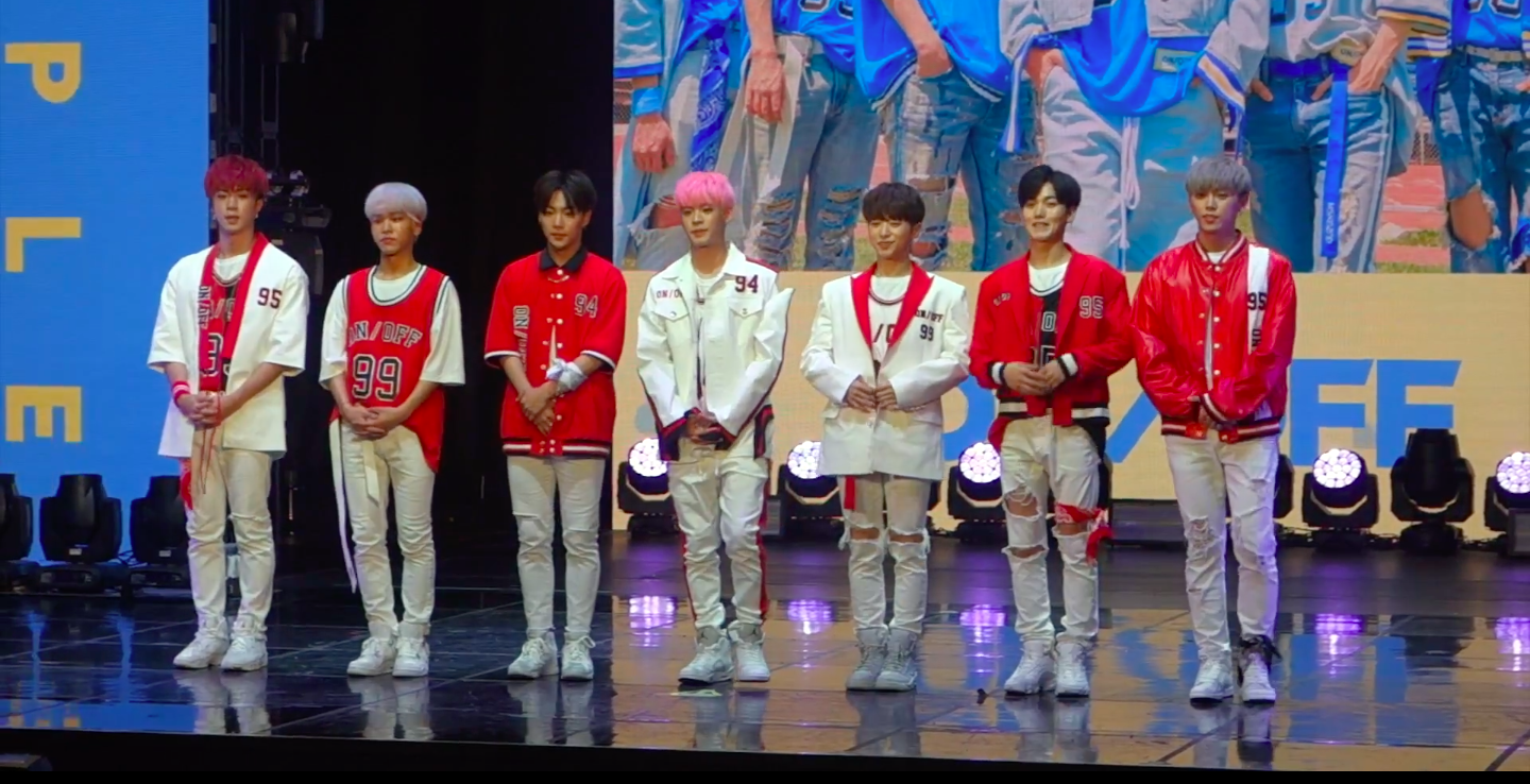 South Korean boy band ONF at "You Complete Me" Showcase on 7 June, 2018.